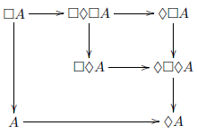 The modalities and their relations in the S4 modal logic.